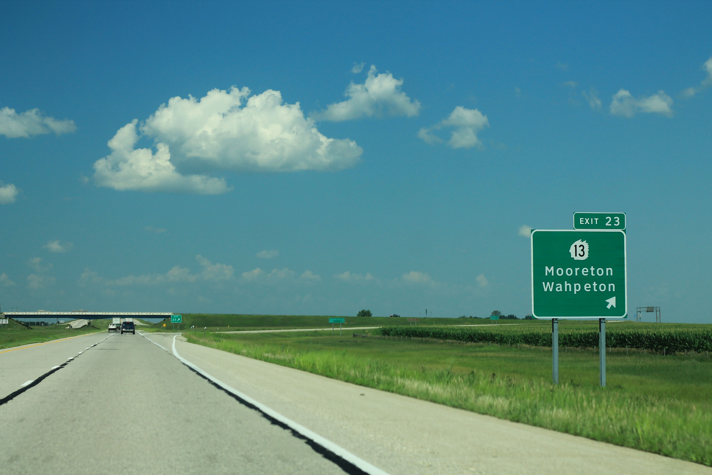 I-29 US81 North - Exit 23 - ND13